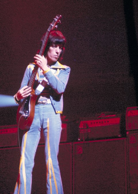 Bill Wyman, (former) bassist for the Rolling Stones, in concert in Chicago, Illinois, USA. with Dan Armstrong london bass